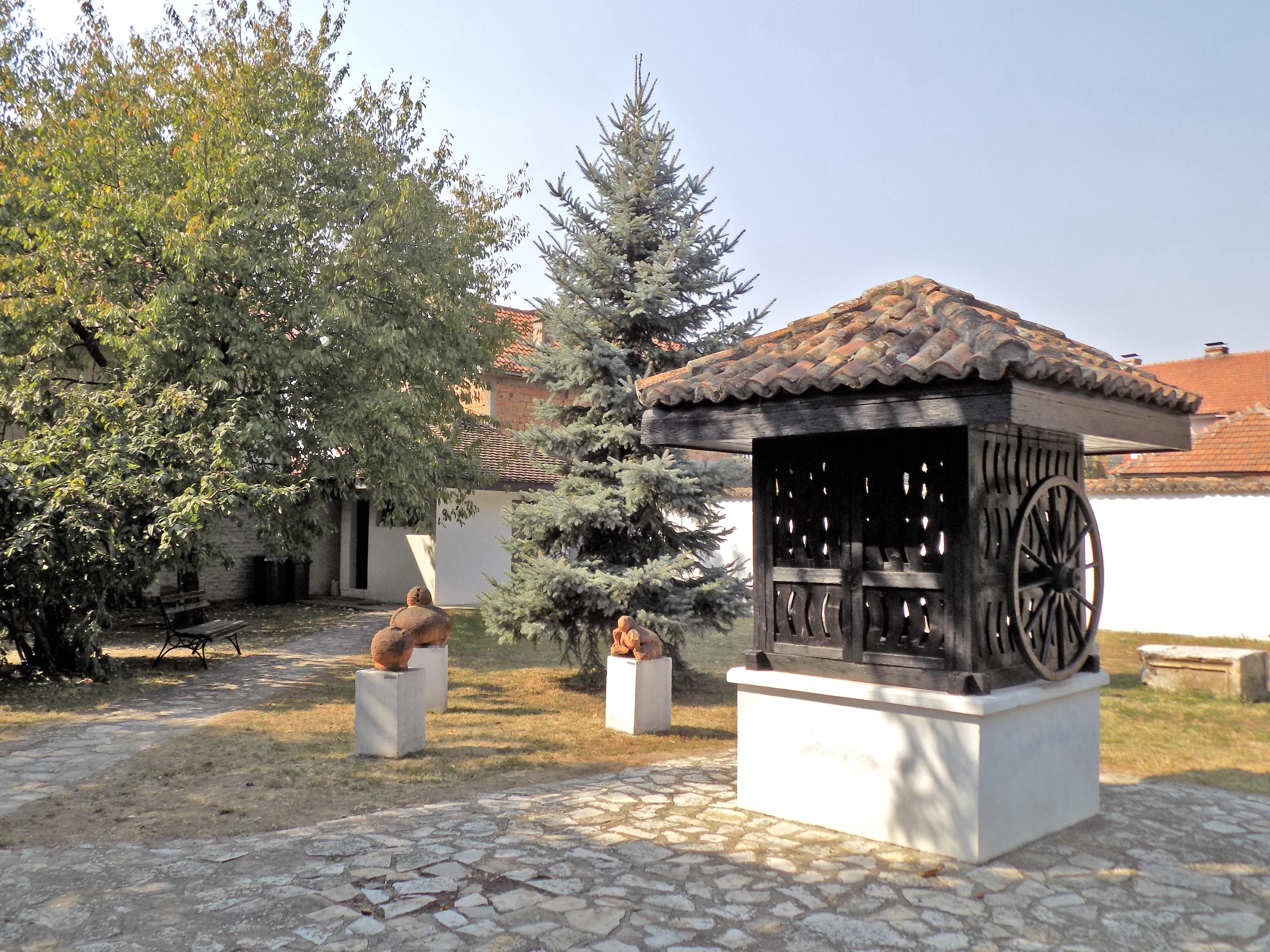 Rancic's house in Grocka, where the Center for Culture Grocka is located